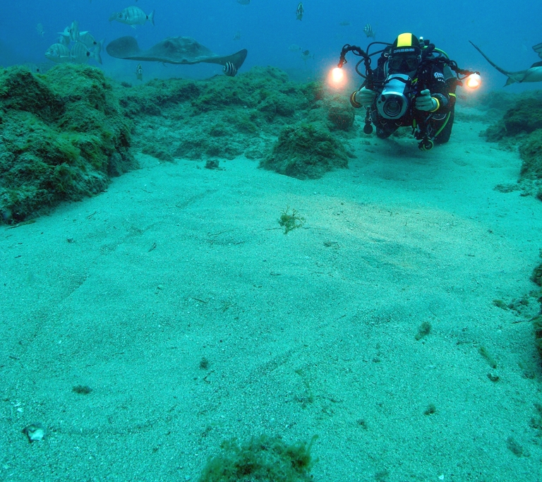 Spiny butterfly ray (Gymnura altavela) buried in sand off Tenerife